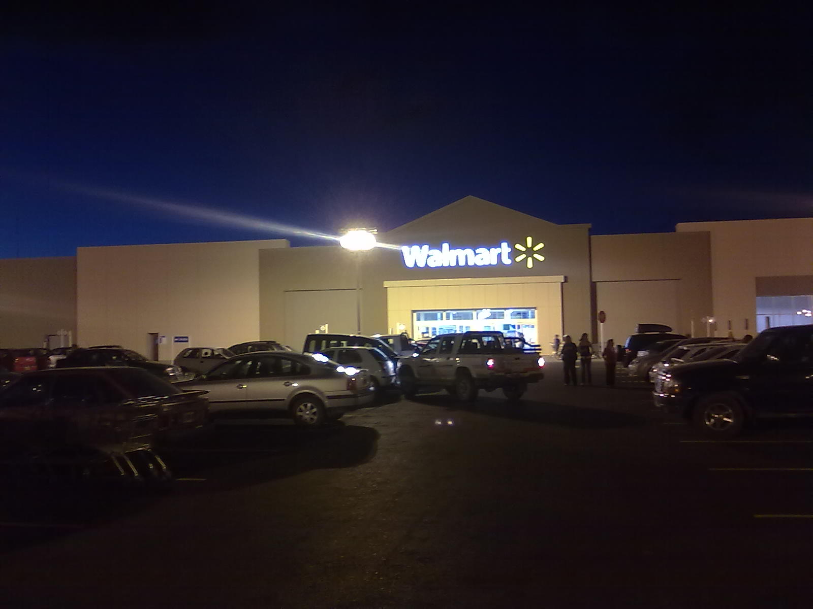 A Walmart in Comodoro Rivadavia, Argentina, inaugurated in 2010